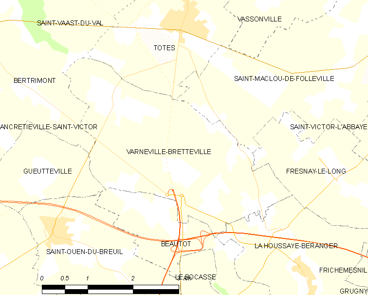 Map of French municipality Varneville-Bretteville